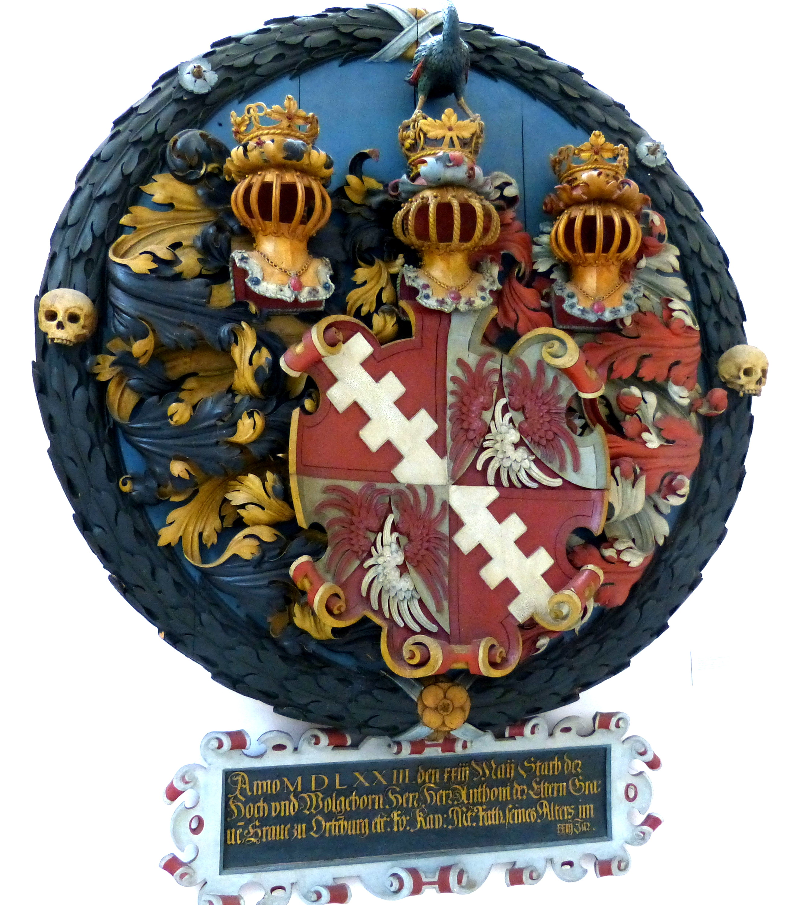 Ortenburg ( Lower Bavaria ). Parish church ( 16th century ) - Hatchment for Anton von Ortenburg ( + 1573 ) by Hans Pötzlinger.